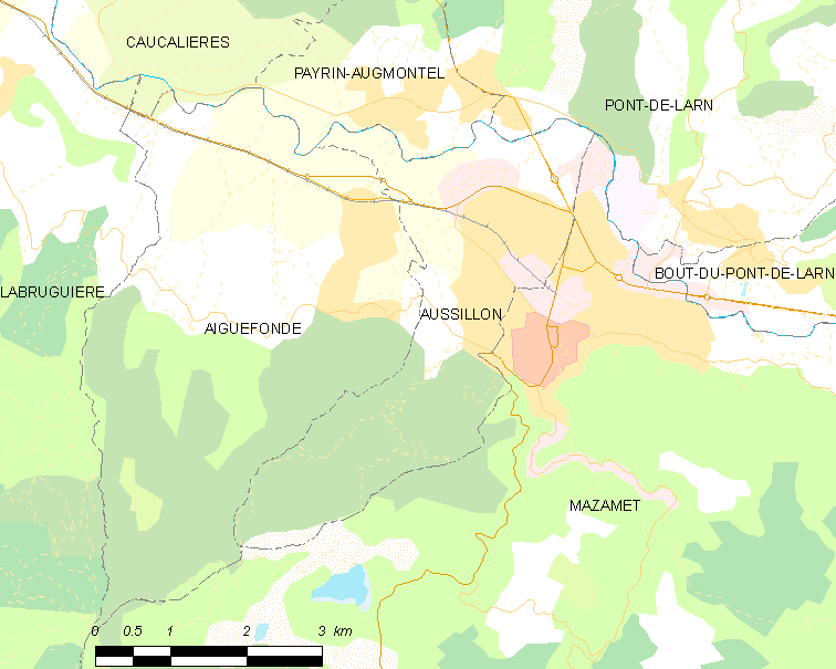 Map commune FR insee code 81021.png - Aussillon